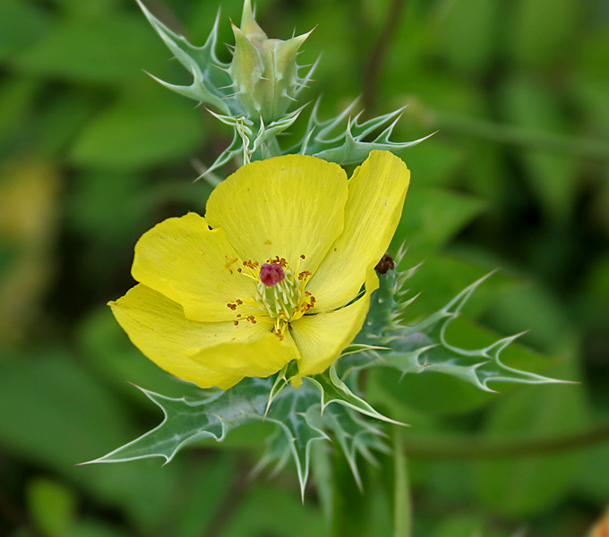 Mexican Poppy, Mexican Prickly Poppy, Cardosanto, pivla dhotra, bhamamdandi or satyanashi Argemone mexicana in Narsapur, Andhra Pradesh, India.